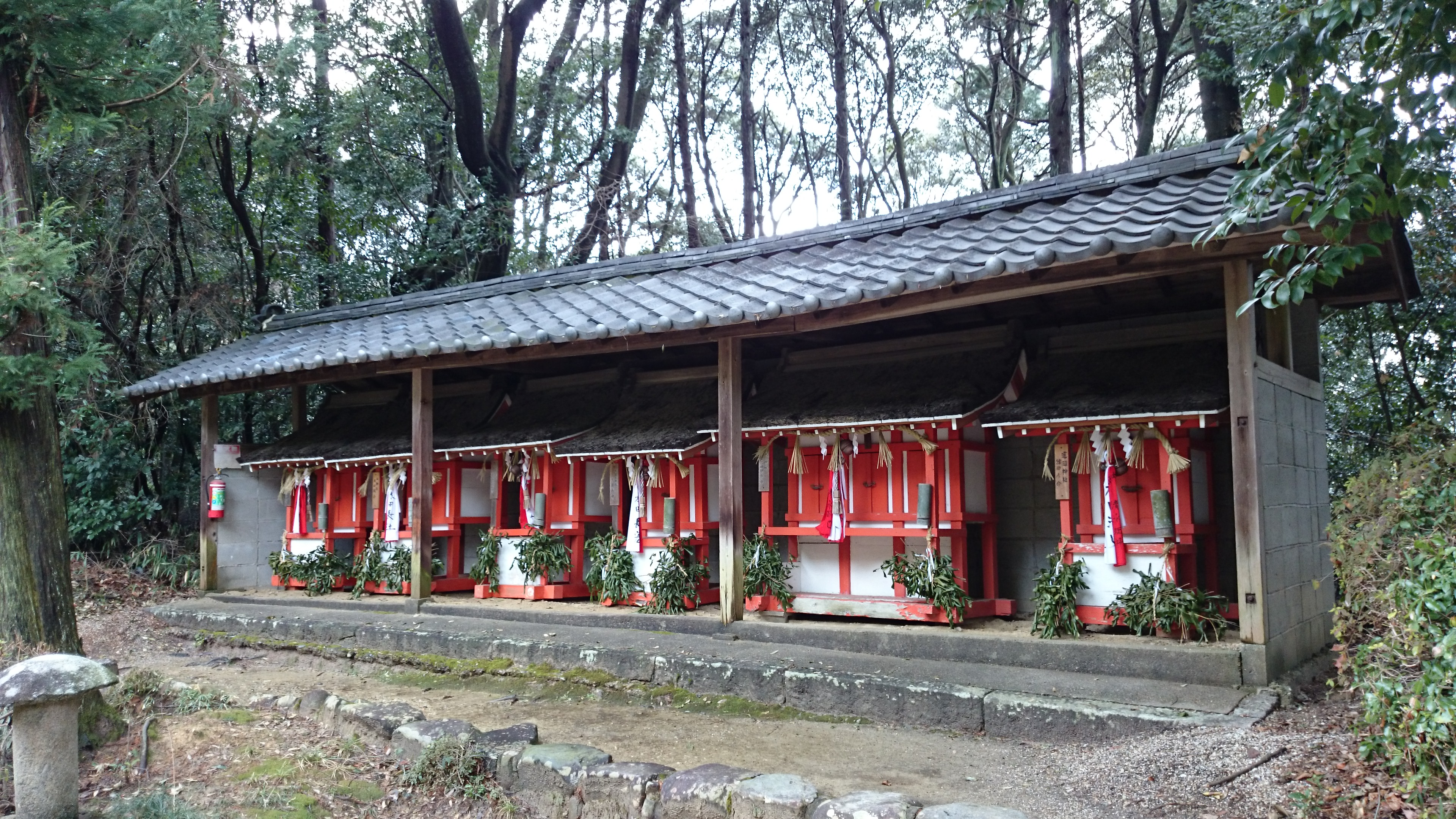 Kuraoka Shurine at Seikacho, Kyoto.